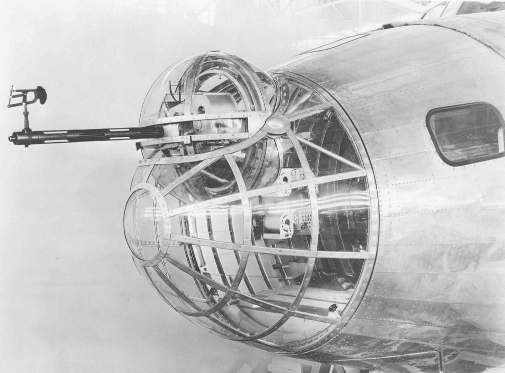 Boeing XB-15 front turret .50-cal. gun installation. (U.S. Air Force photo)